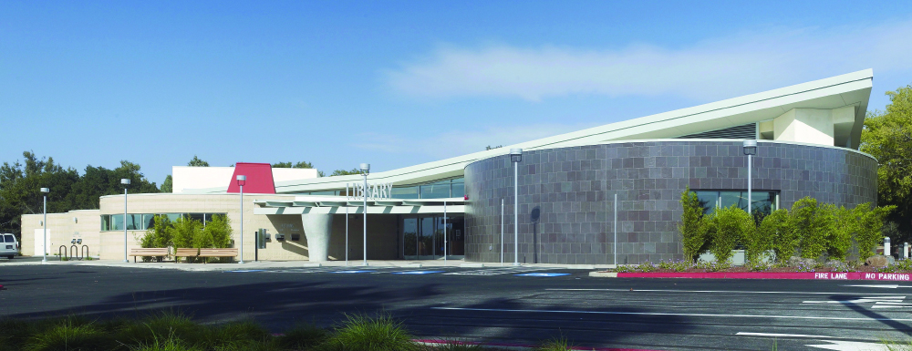 Evergreen Branch of the San Jose Public Library